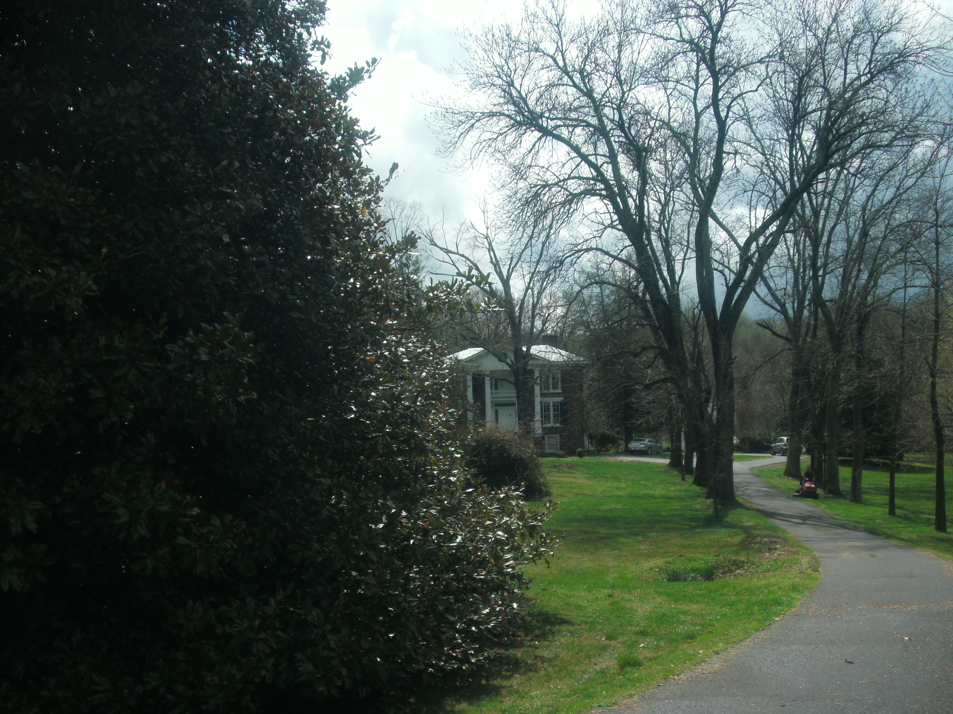 Williston